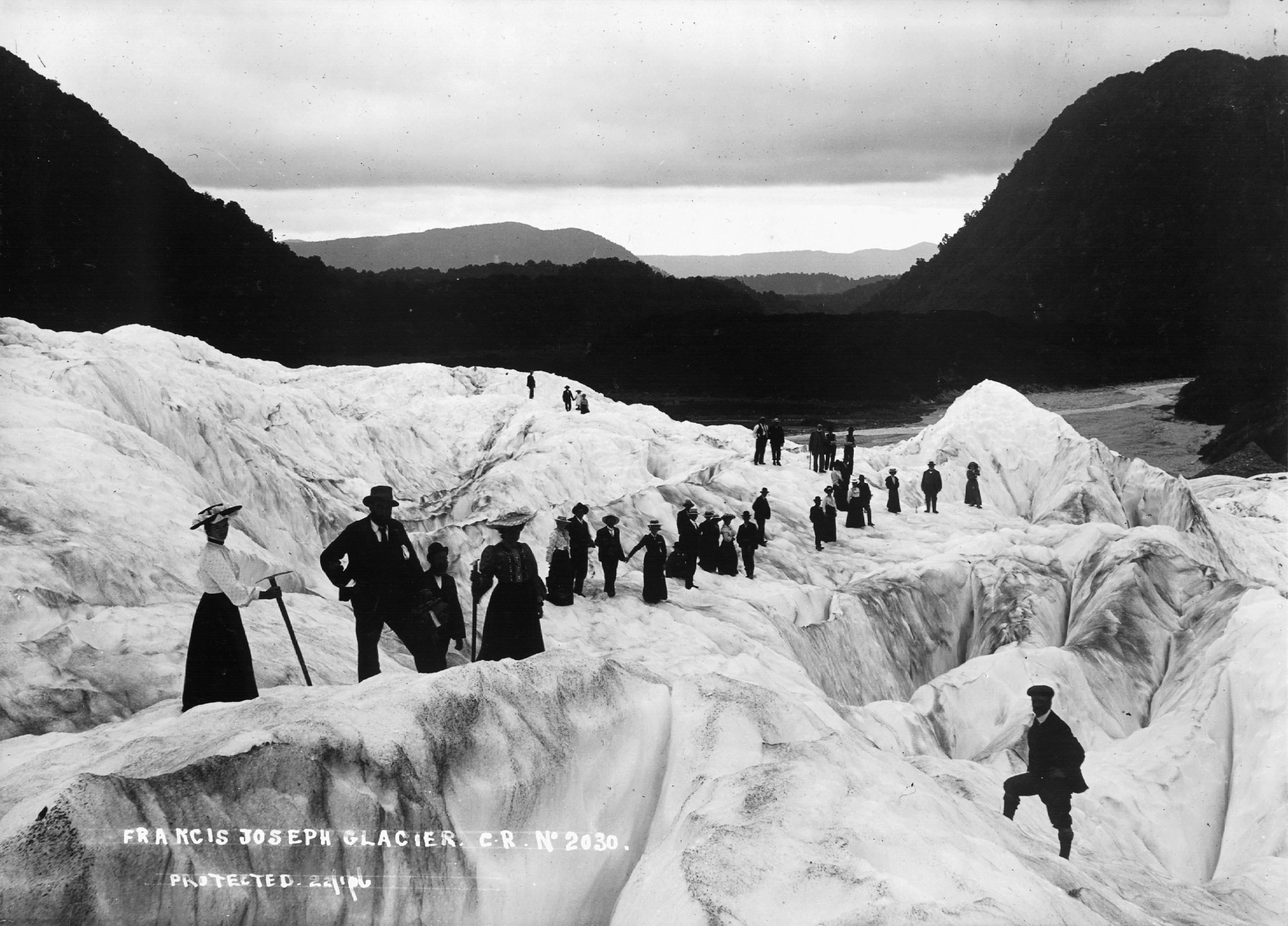 Photographer: James Ring (1856-1939)[1] Francis [sic] Joseph Glacier, 1906 Albumen print Reference No. PA1-o-436-16-2 Photographic Archive, Alexander Turnbull Library, National Library of New Zealand